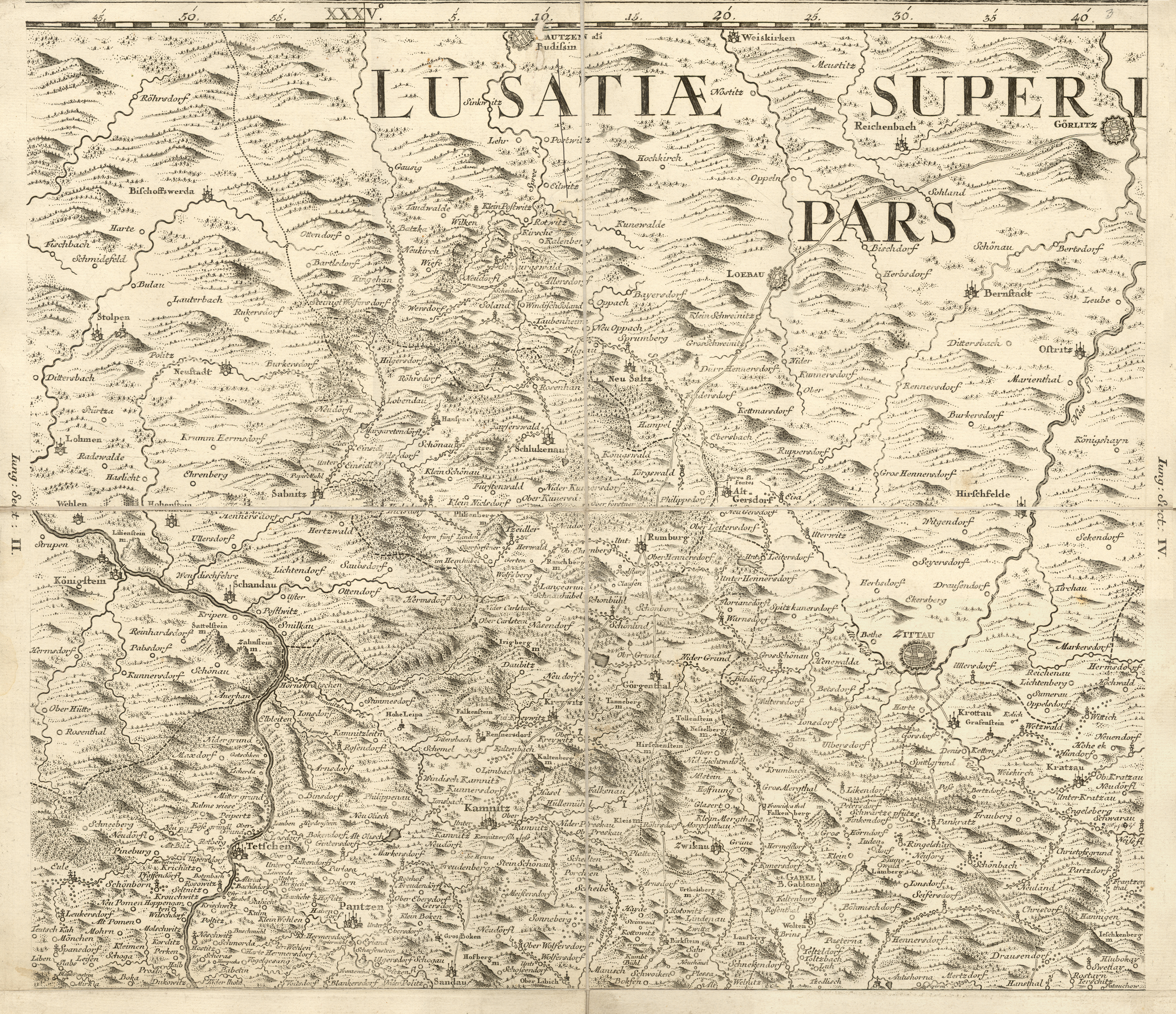 Müller's map of Bohemia.